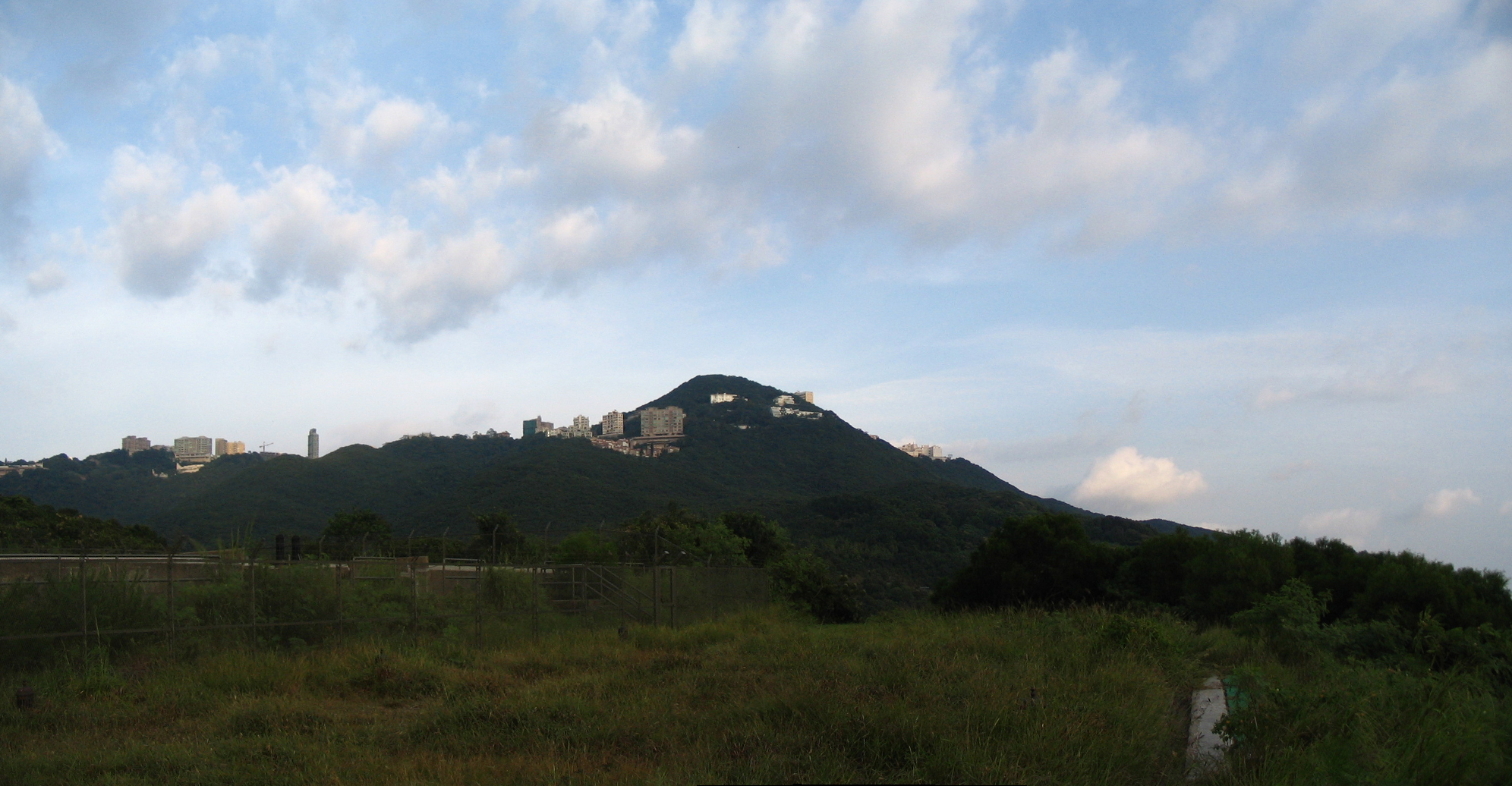 Panoramic photo of Mount Kellett, combined from 1463059803 and 1463916776